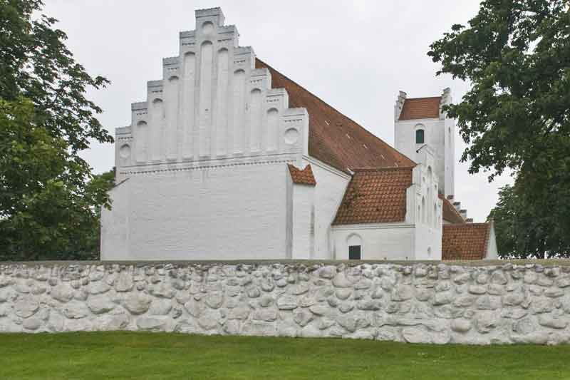 The Danish church Nordby Kirke, situated on the Danish isle Samsø.